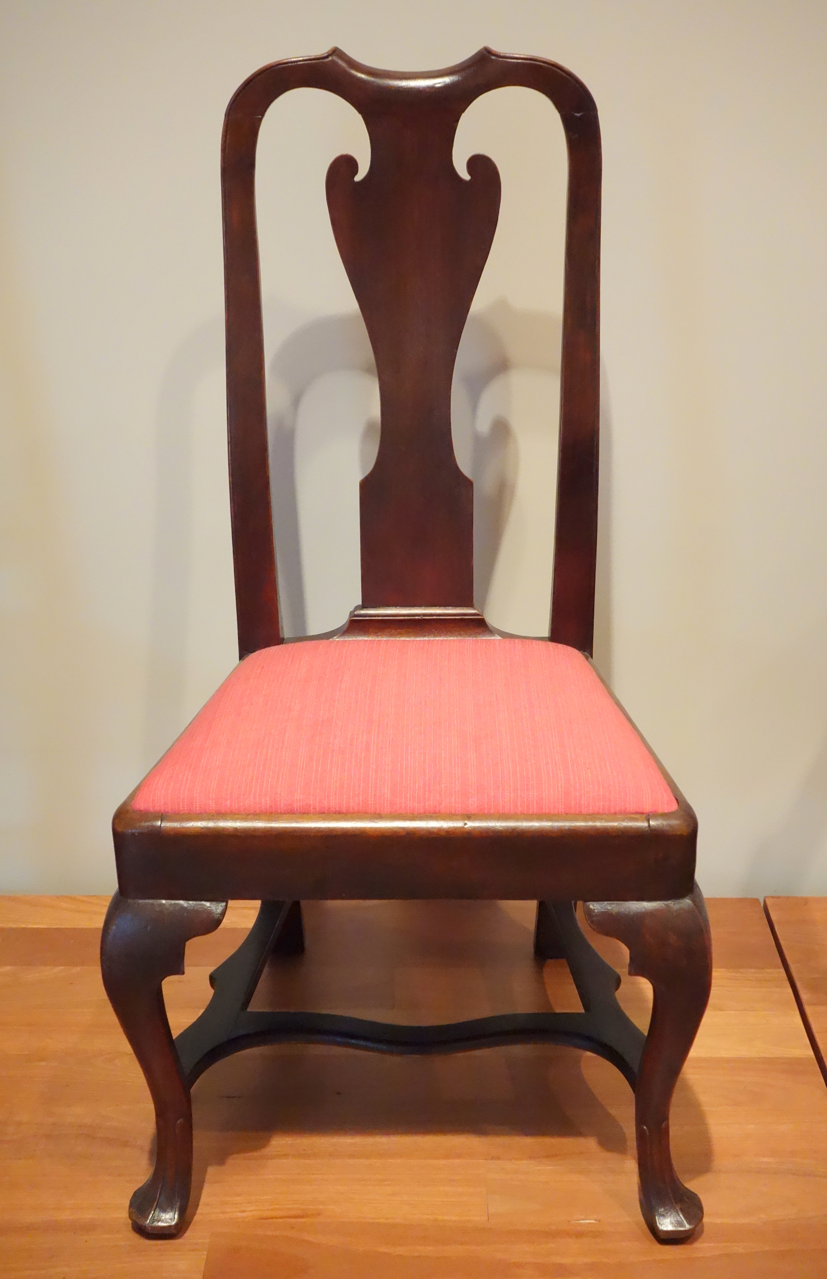 Exhibit in the De Young Museum, San Francisco, California, USA. This artwork is in the public domain because the artist died more than 70 years ago.